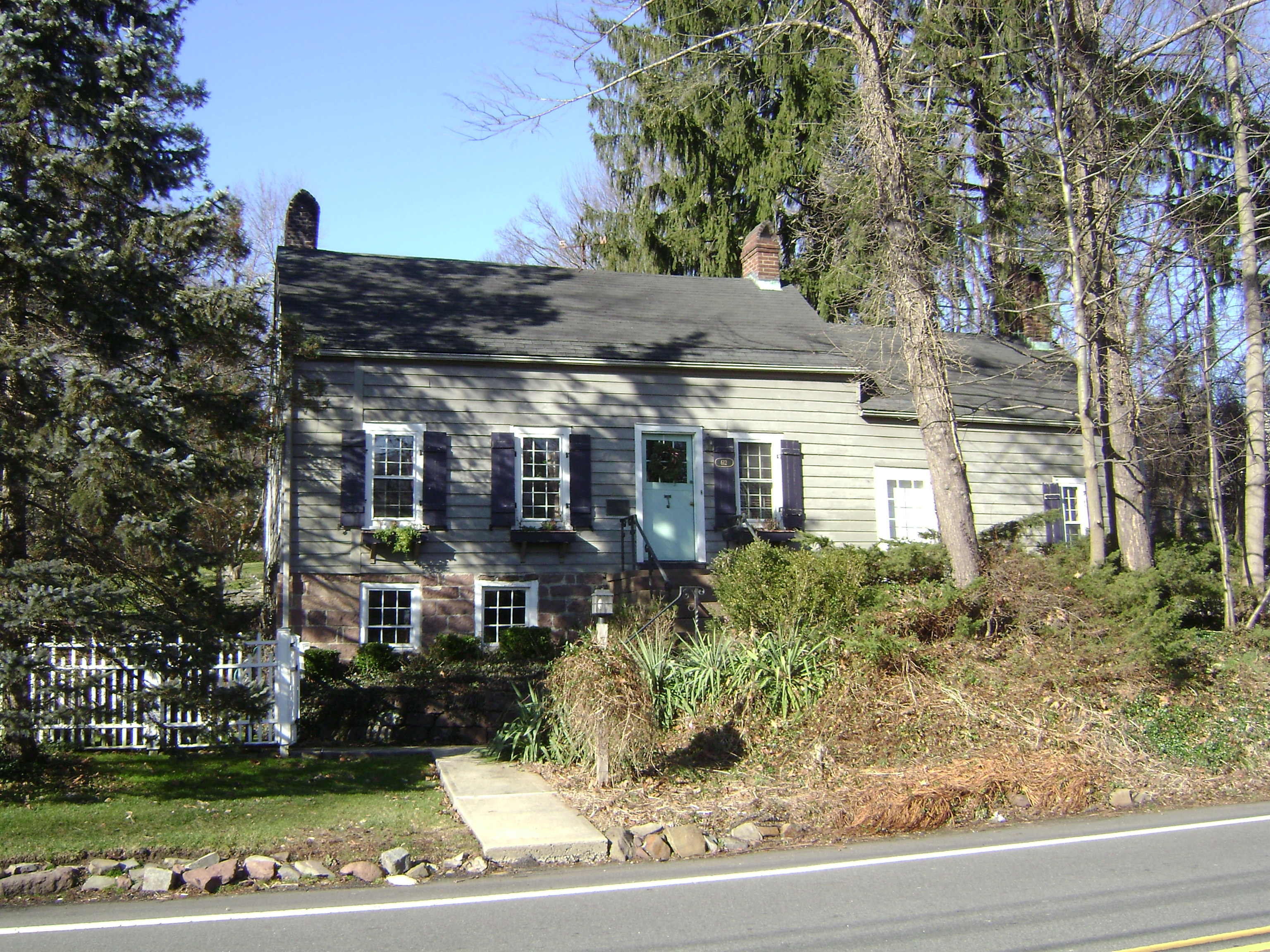 The Reynier Speer House, in Little Falls, New Jersey, is seen while traveling north on Upper Mountain Road. The house, built in 1785, is featured on the both the National and State Register of Historic Places.